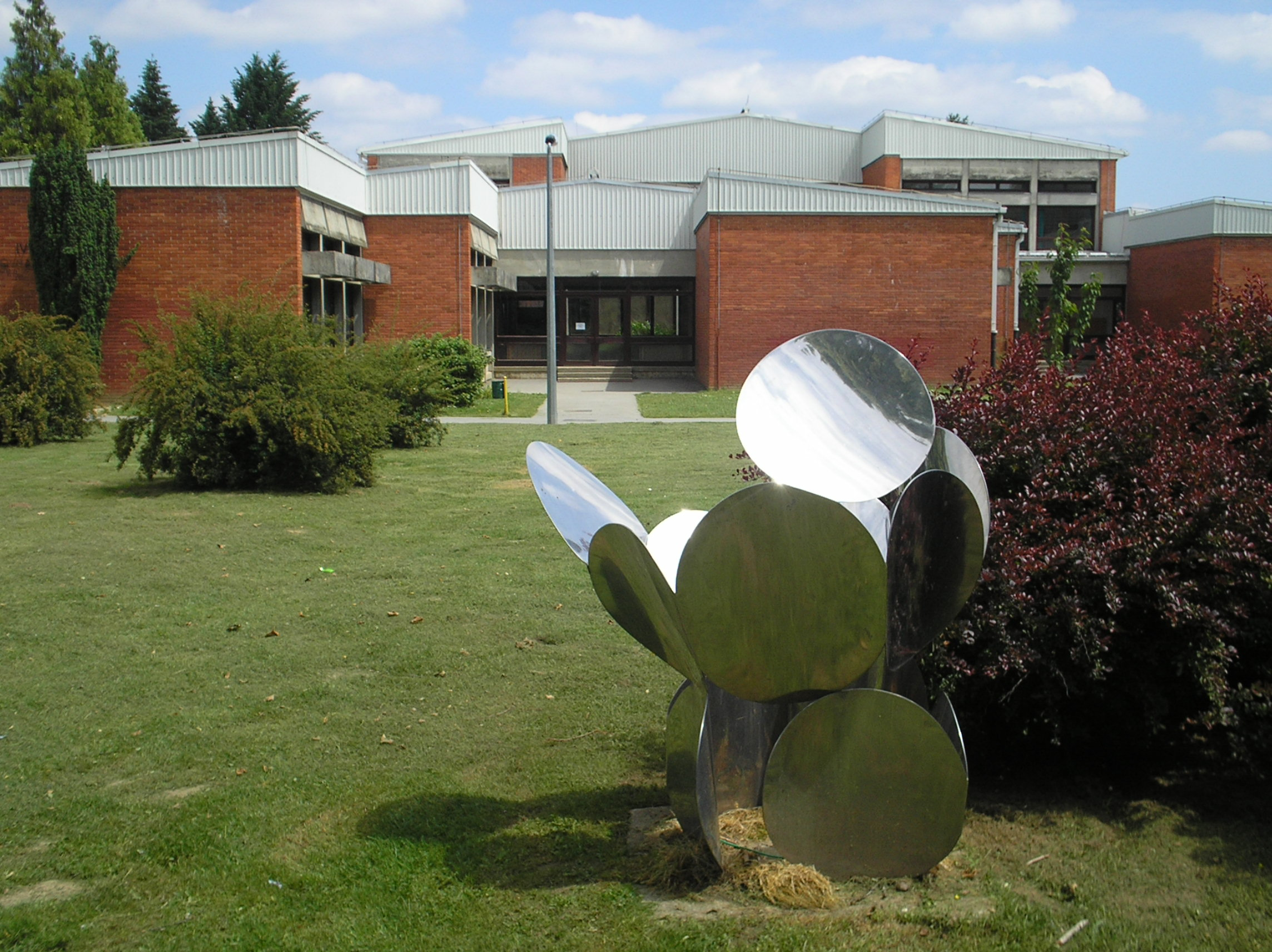 Elementary school in Bjelovar, CroatiaHrvatski: IV. osnovna škola Bjelovar i skulptura Zrcala, rad Vojina Bakića